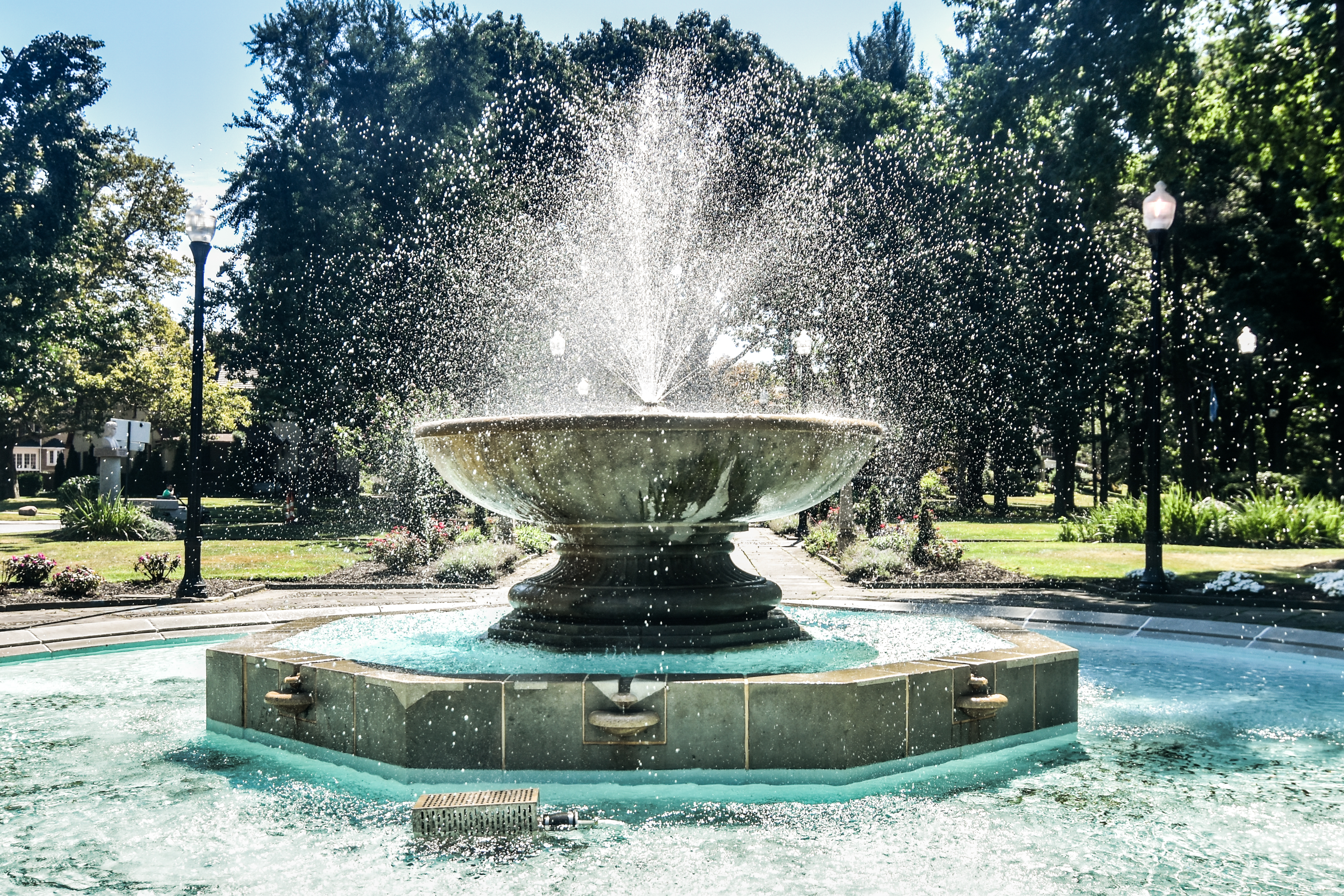 Cultural Gardens of Cleveland